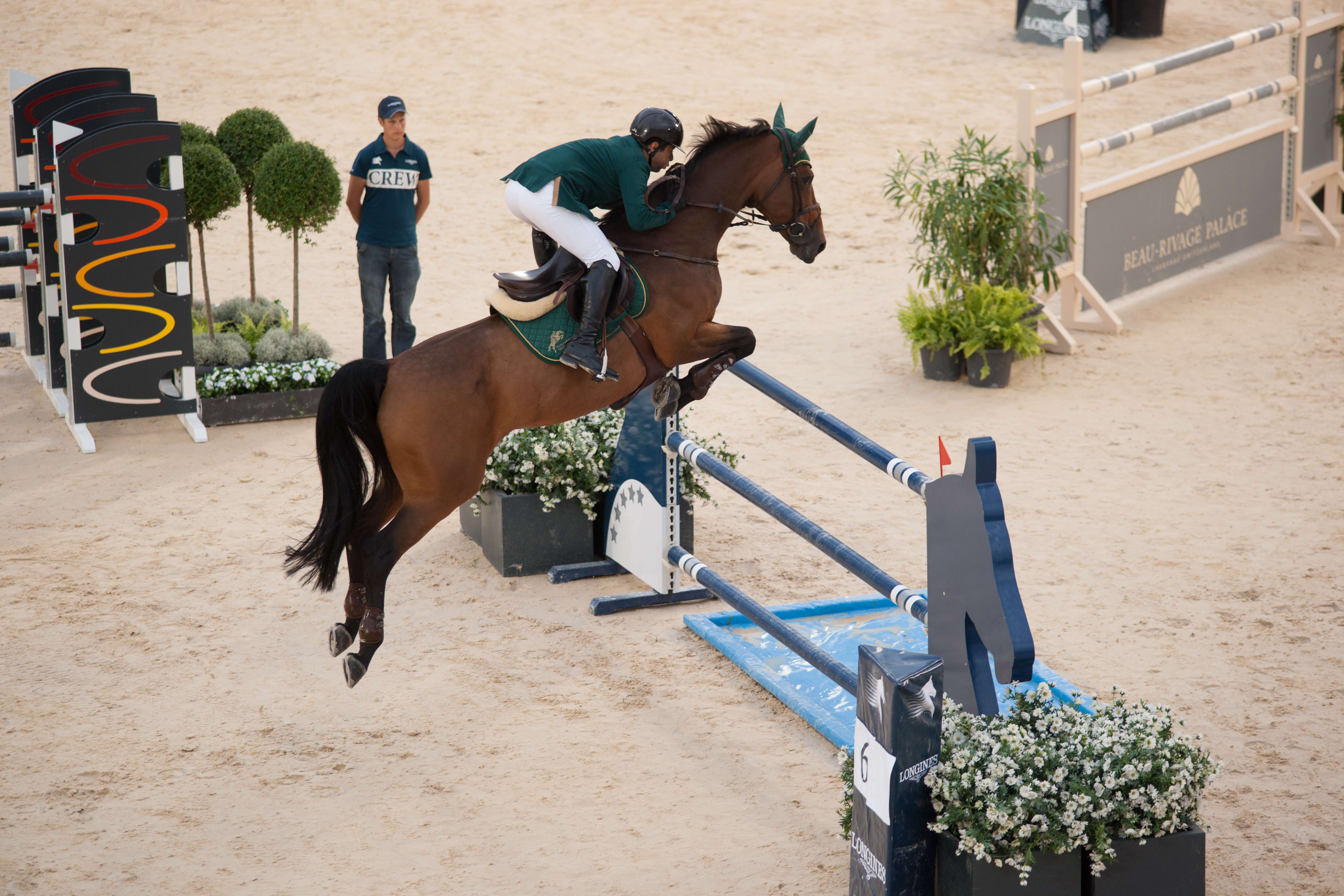 The making of this document was supported by Wikimedia CH. (Submit your project!) For all the files concerned, please see the category Supported by Wikimedia CH. 2013 Longines Global Champions Tour